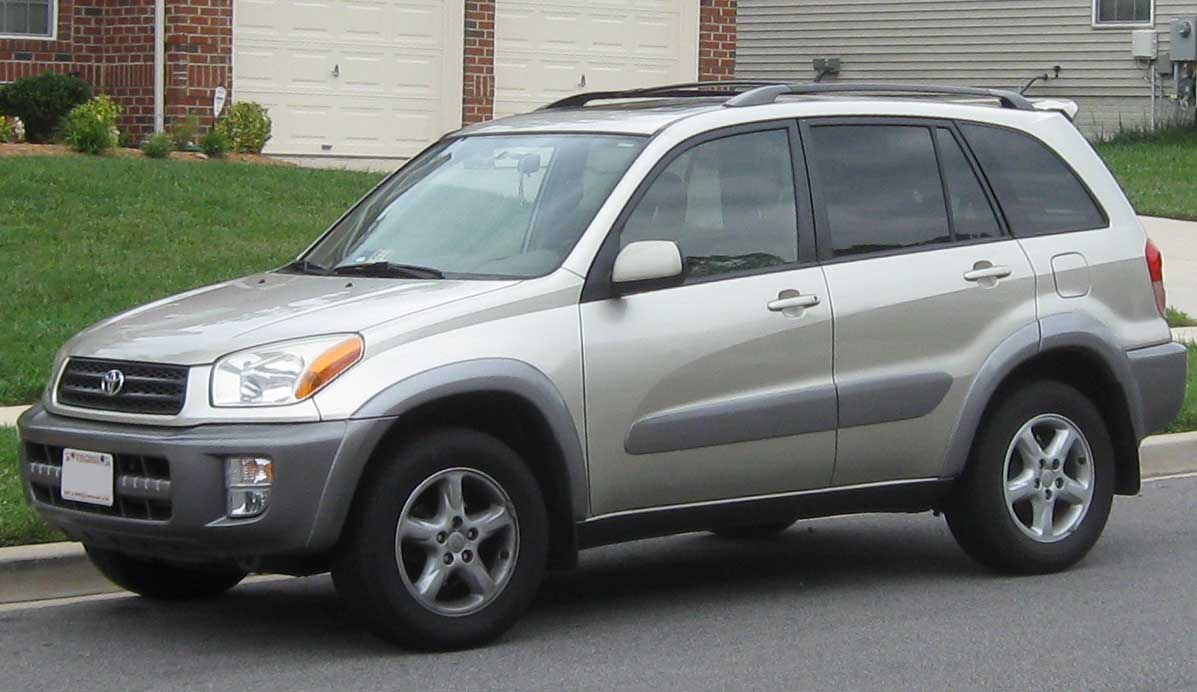 2001-2003 Toyota RAV4 photographed in Fort Washington, Maryland, USA.